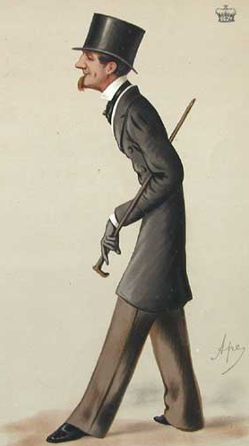 Caricature of John Thynne, 4th Marquess of Bath. Caption read "Ancient lineage".